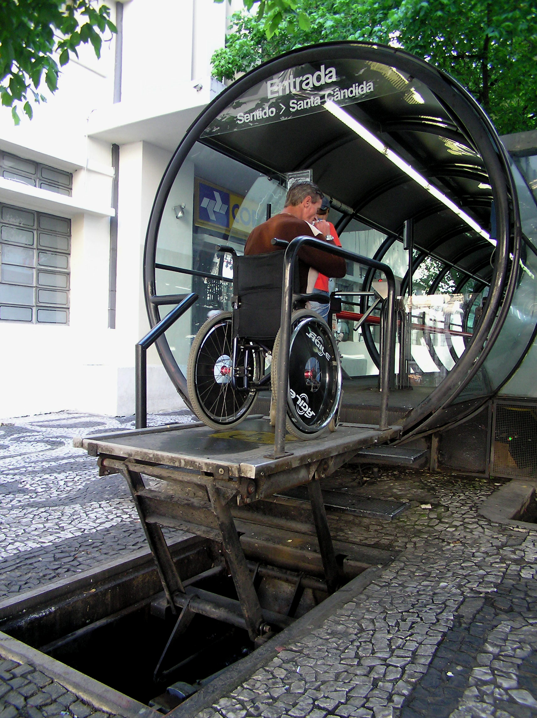 A wheelchair lift being used to lift a person in a wheelchair to the floor level of one of the high-platform bus stops of the Curitiba, Brazil, Rede Integrada de Transporte bus system.